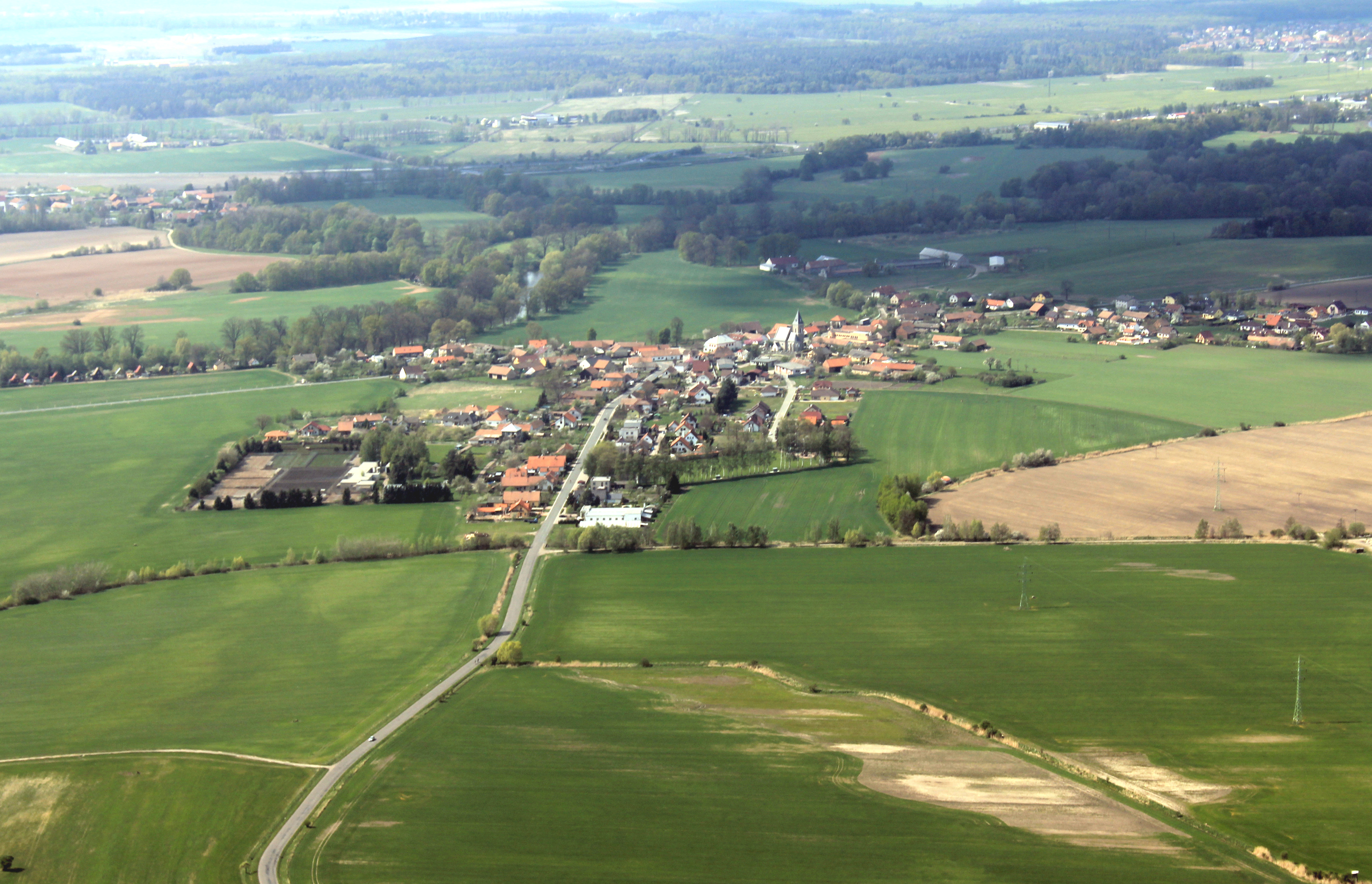 Village Dříteč from air, eastern Bohemia, Czech Republic